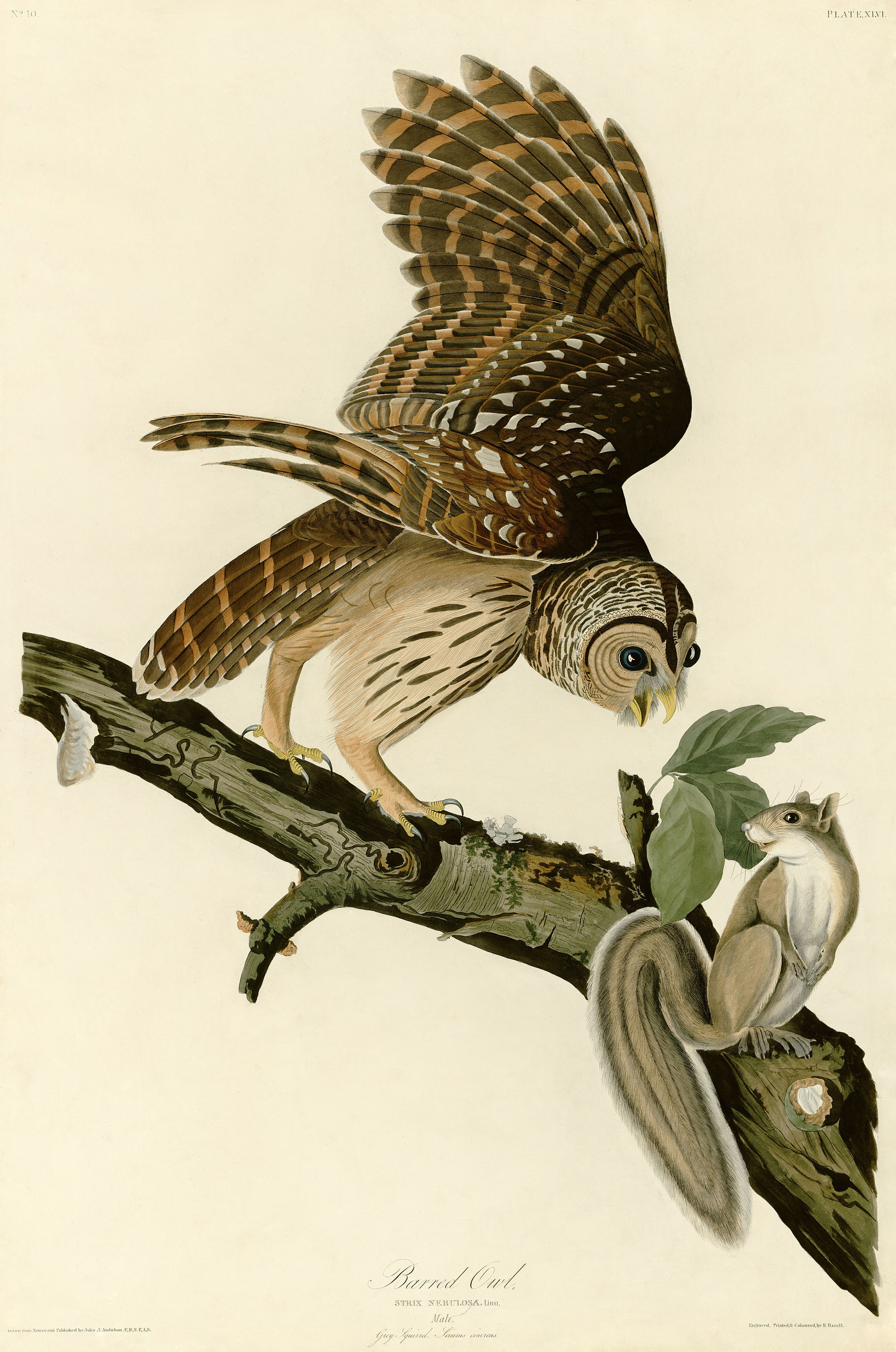 Plate 46 of Birds of America by John James Audubon depicting Barred Owl.